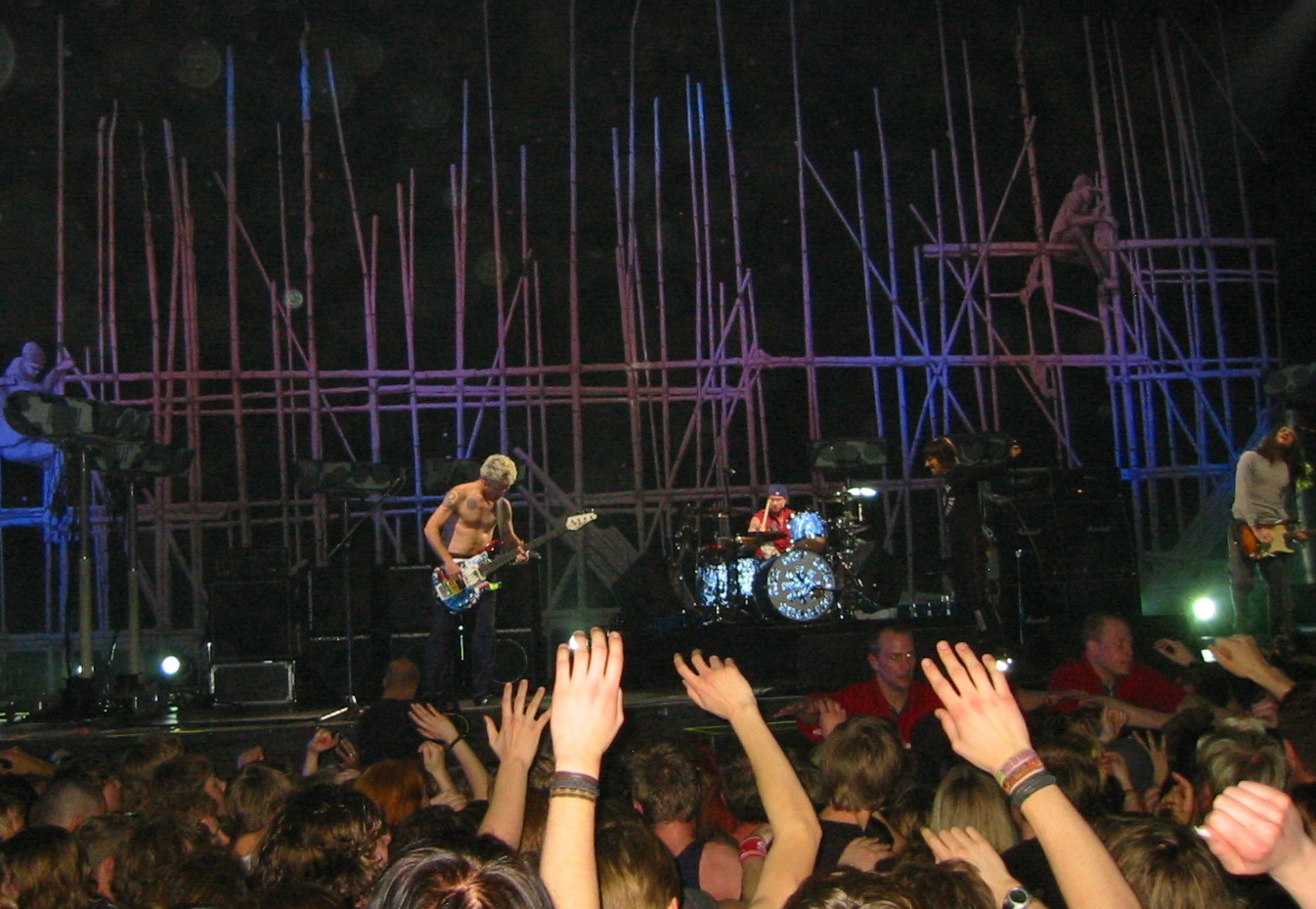 Red Hot Chili Peppers from a concert in Stockholm.